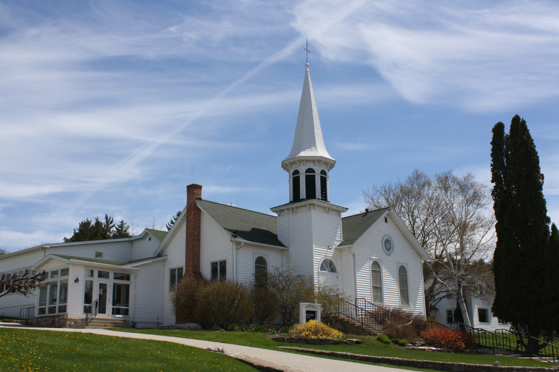 The Ephraim Moravian Church in Ephraim, Wisconsin. It is listed on the National Register of Historic Places.